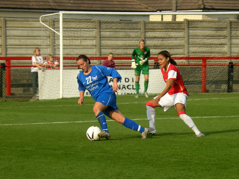 Bclfc vs arsenal in the FA league cup, season 2006/07. For more details go to